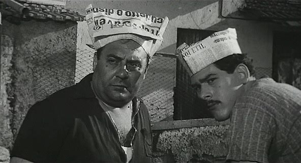 Mario Frera (left) in a scene of the film